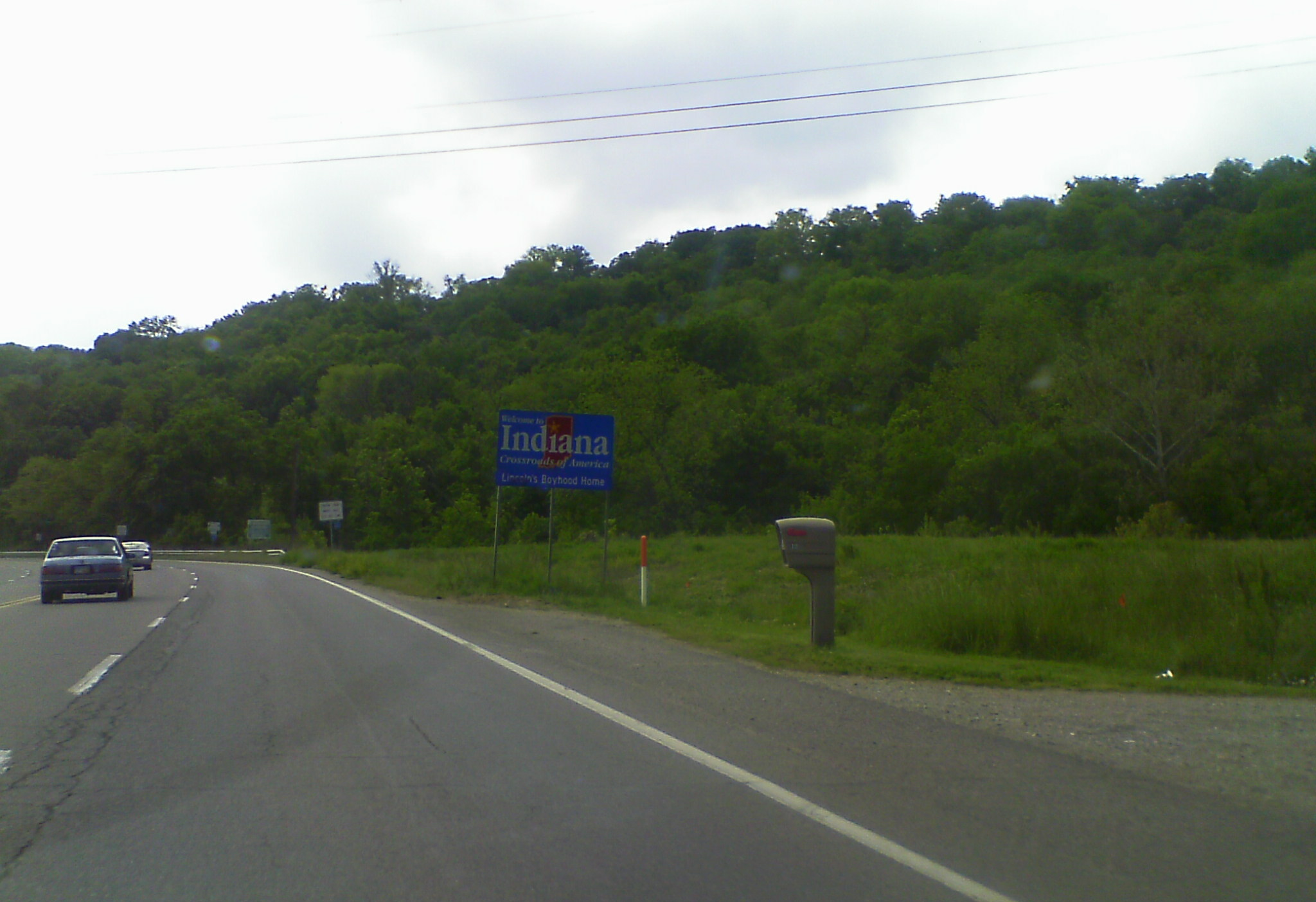 US 50 entering Indiana from Ohio (near Lawrenceburg)